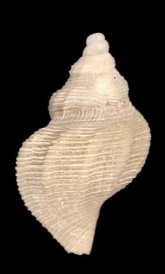 Pleurotomella simillima Thiele, 1912; family Raphitomidae; specimen at the Smithsonian Institution